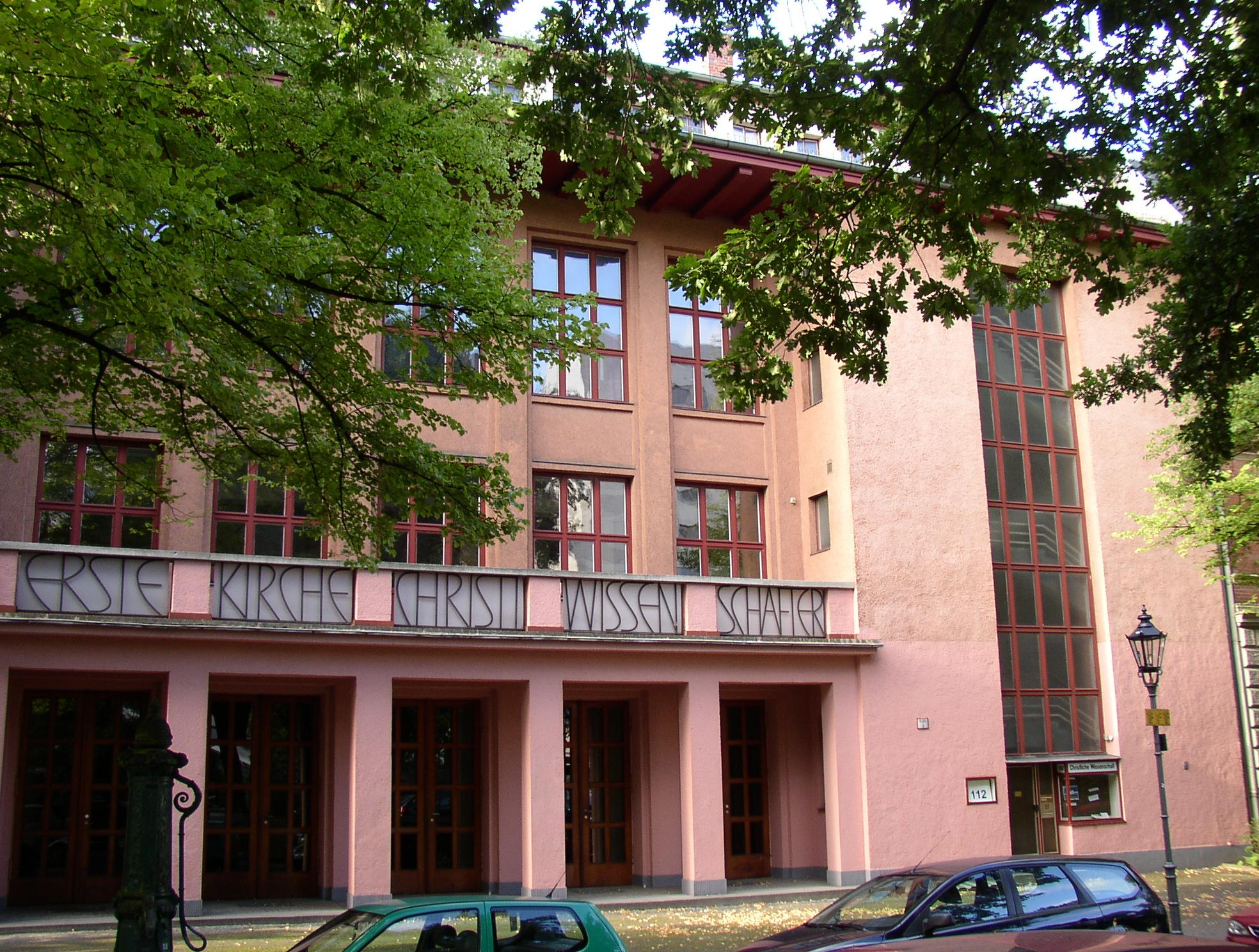 Church by Otto Bartning in Berlin-Wilmersdorf, Germany